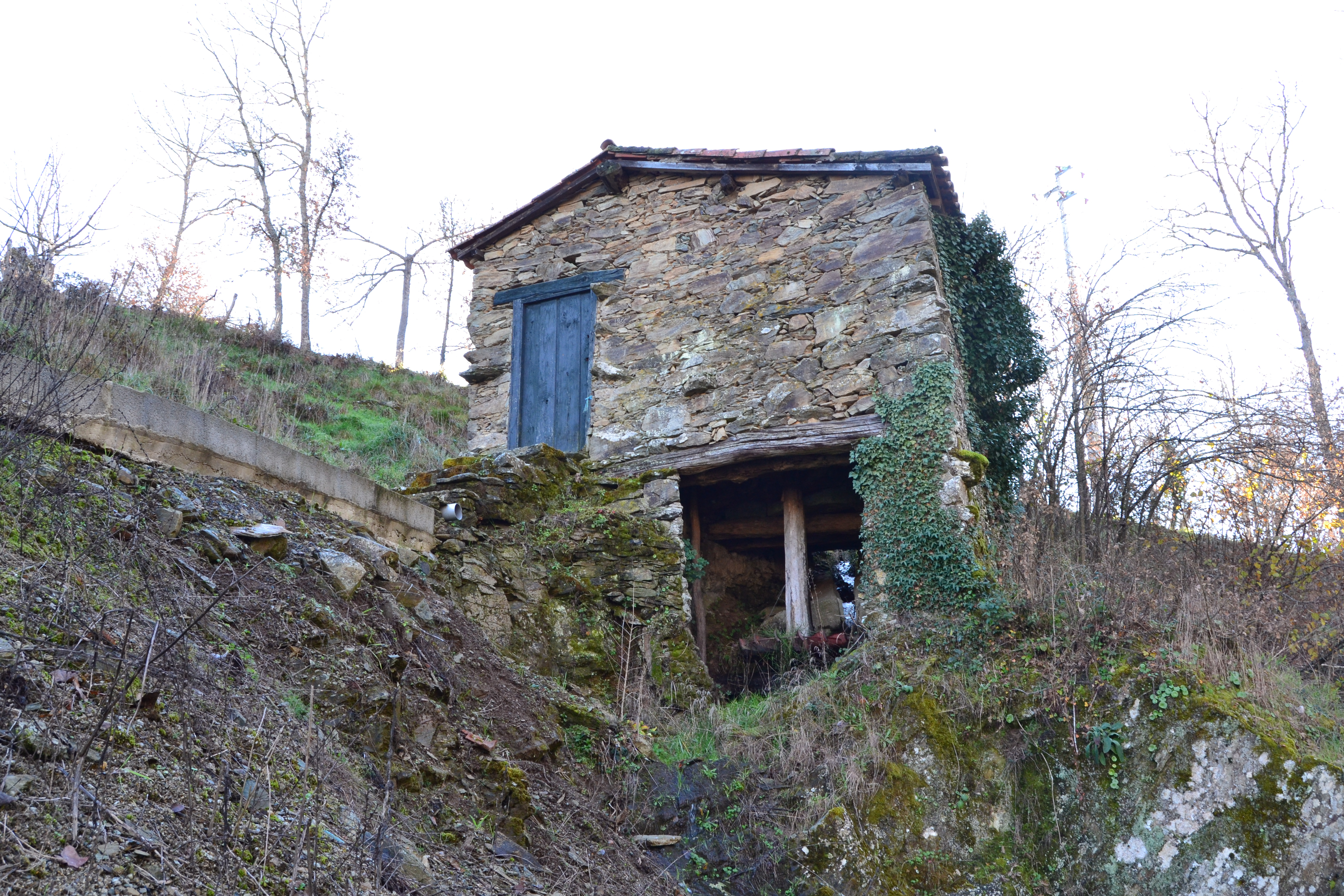 This is a photography of a Site of Community Importance in Portugal with the ID: PTCON0002. Natura2000 entry, EEA entry